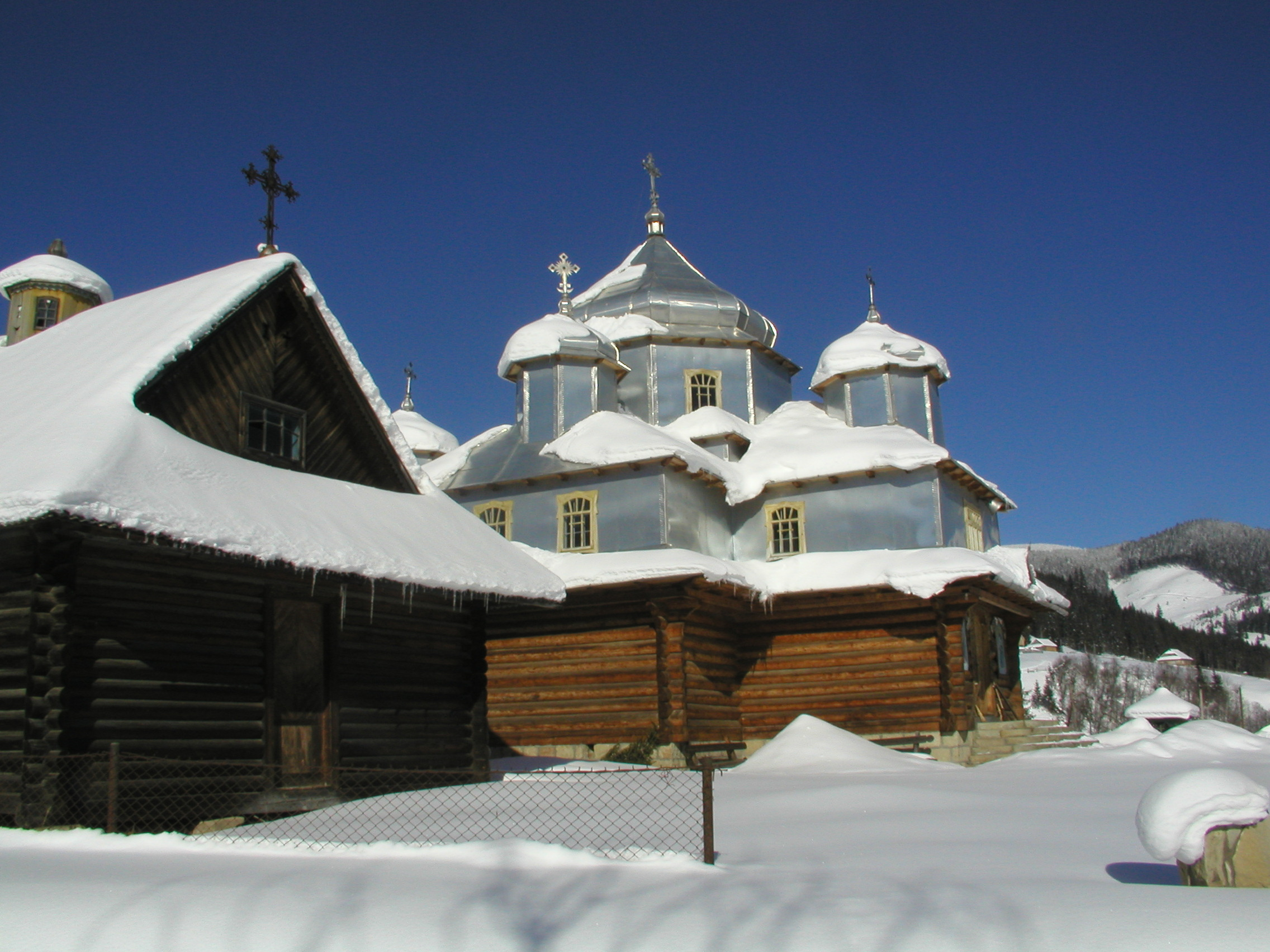 Polyanytsya village (Ivano-Frankivsk Oblast, Ukraine)